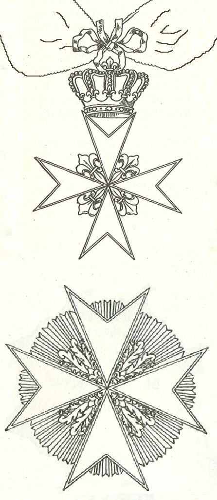 Jewel and star of the Order of Saint Stephanis. Tuscany 1554